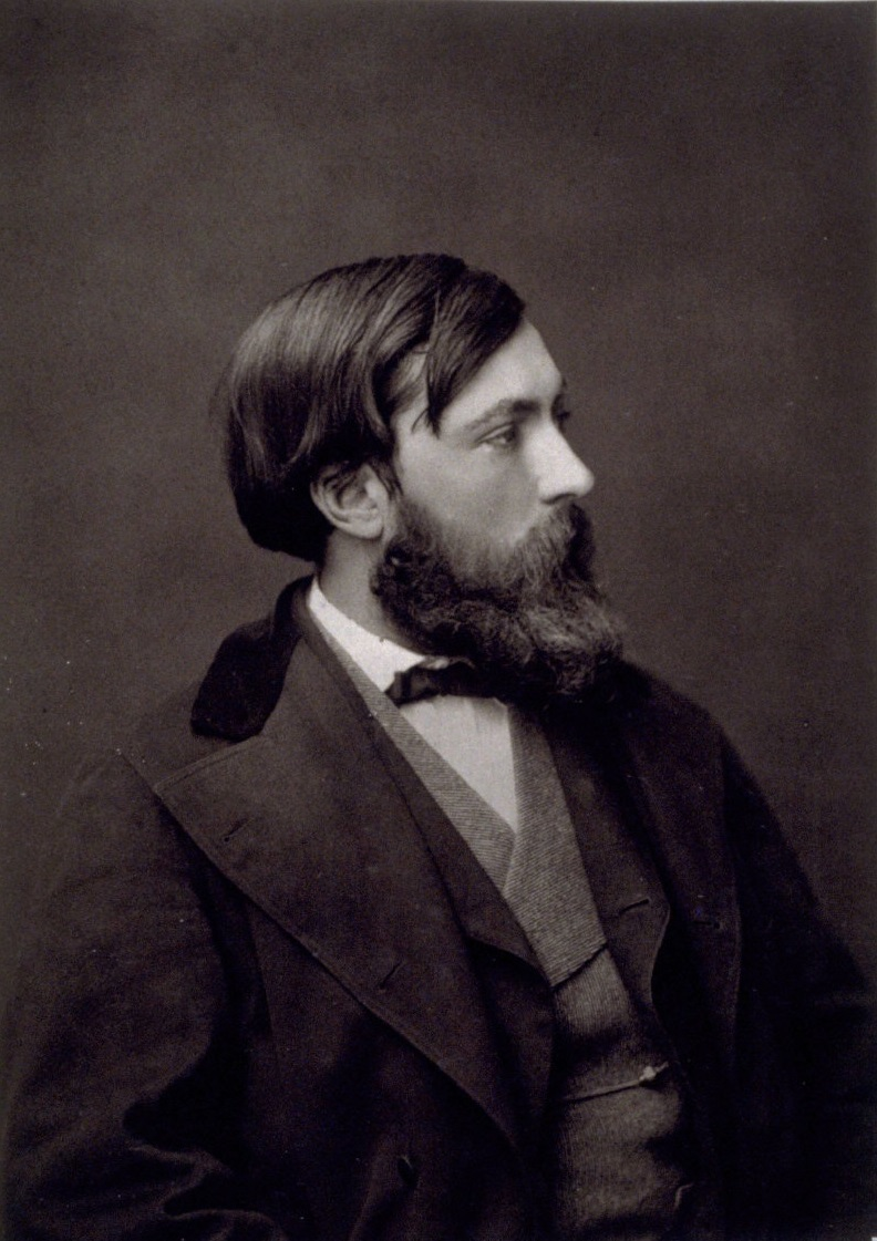 Sylvestre, seventy-sixth plate in this bound selection of 81 illustrated essays from the series,Galerie contemporaine, littéraire, artistique